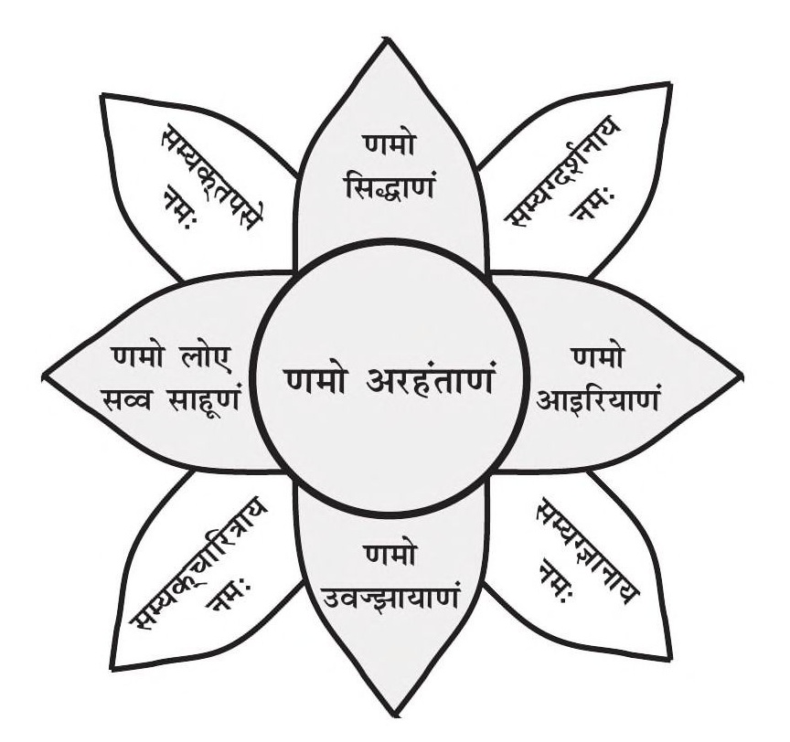 Obeisance to Pañca-Parameṣṭhi (five supreme beings) and samyaktv (righteousness) From the non-copyright book: (page-1)